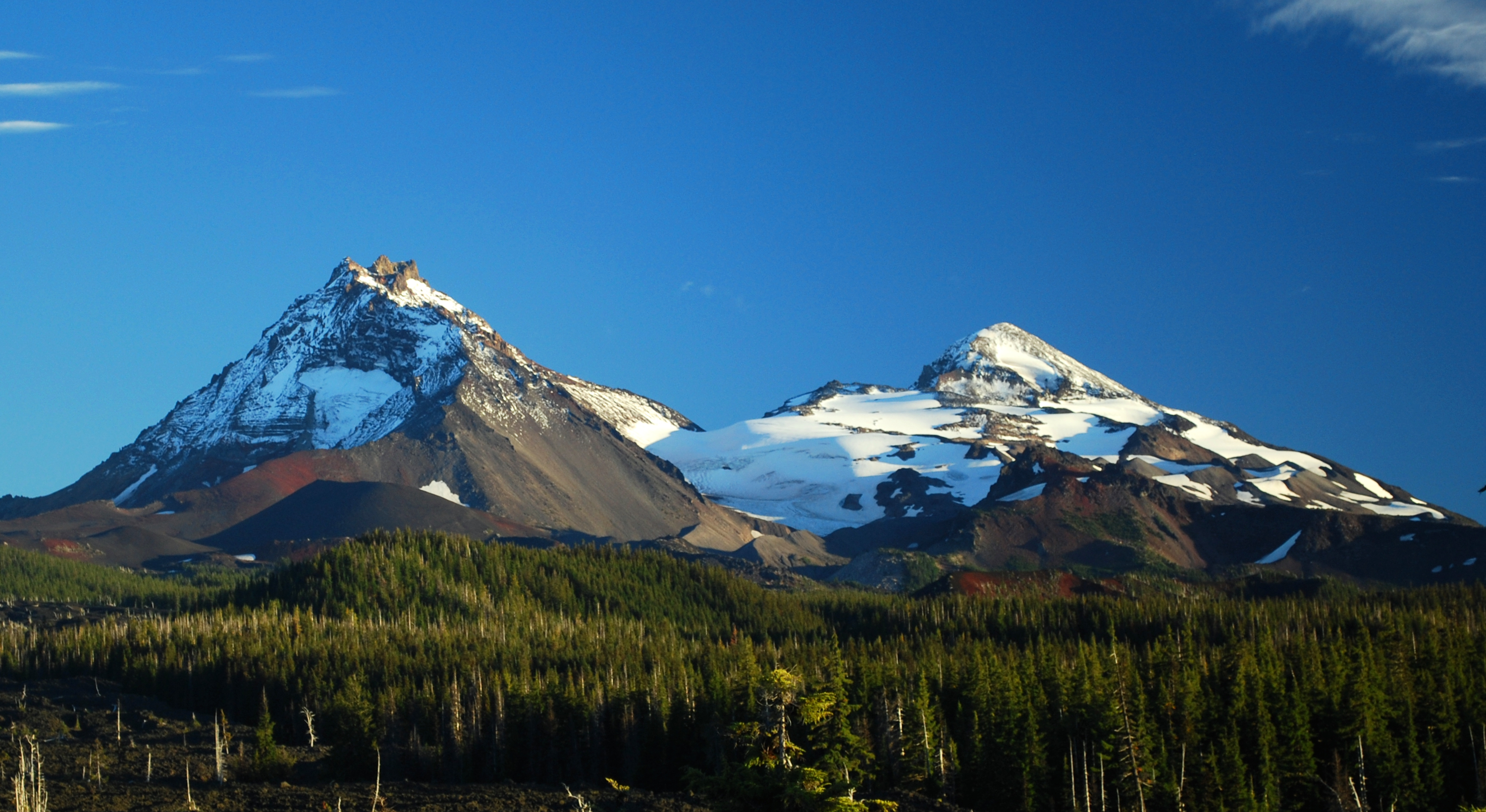 North Sister (left) and Middle Sister (right).